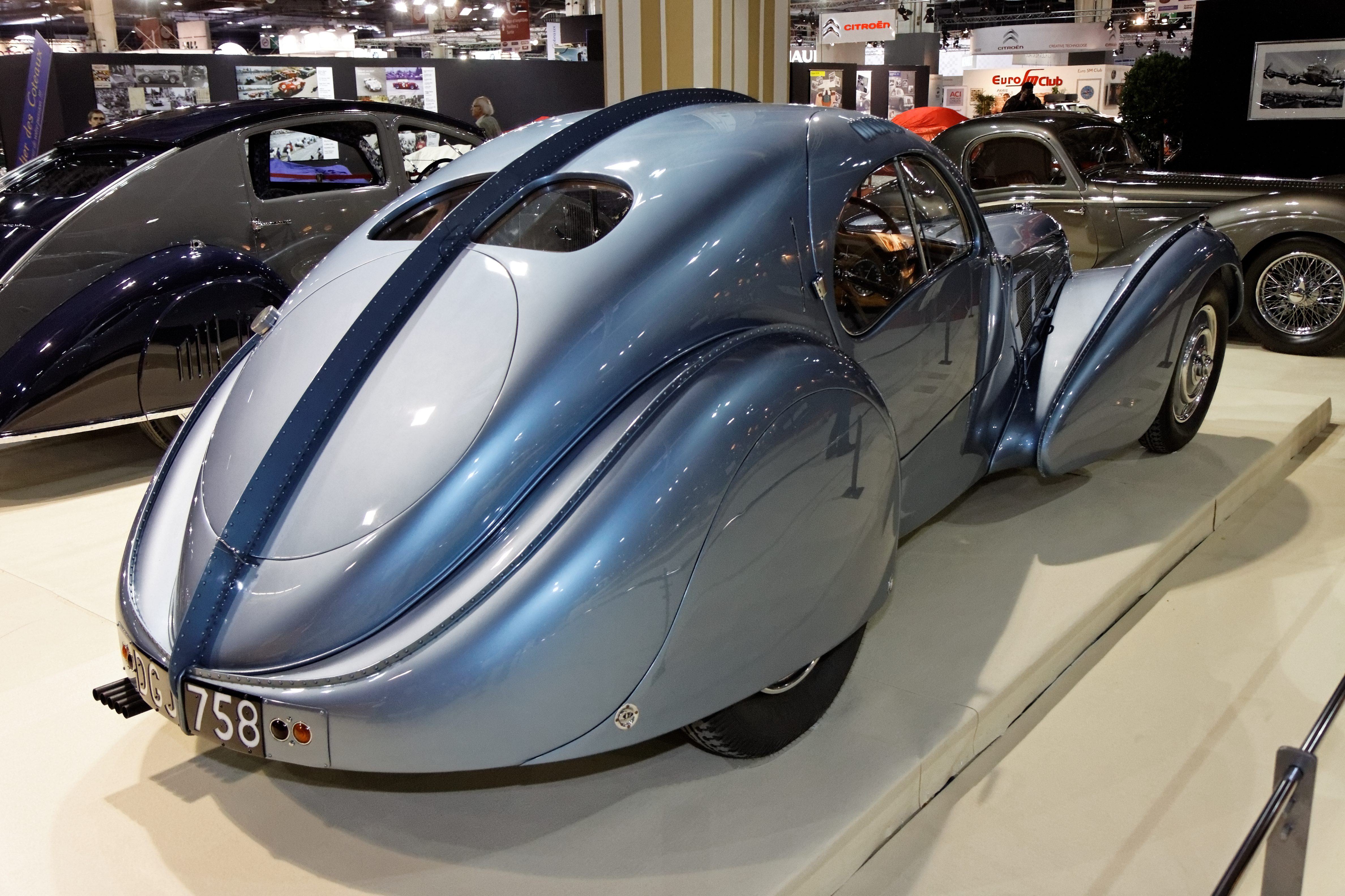 Bugatti type 57SC Atlantic